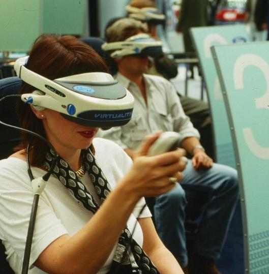 In 1995, creative agency Imagination used the Virtuality Visette 2000 to launch the Ford Galaxy in VR.